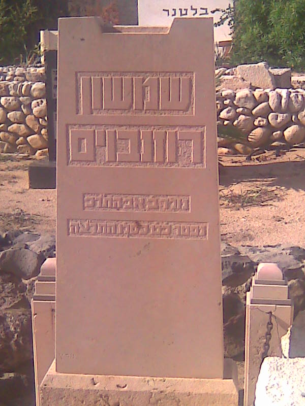 Shimshon Rozenbaum tombstone at Trumpeldor Cemetery